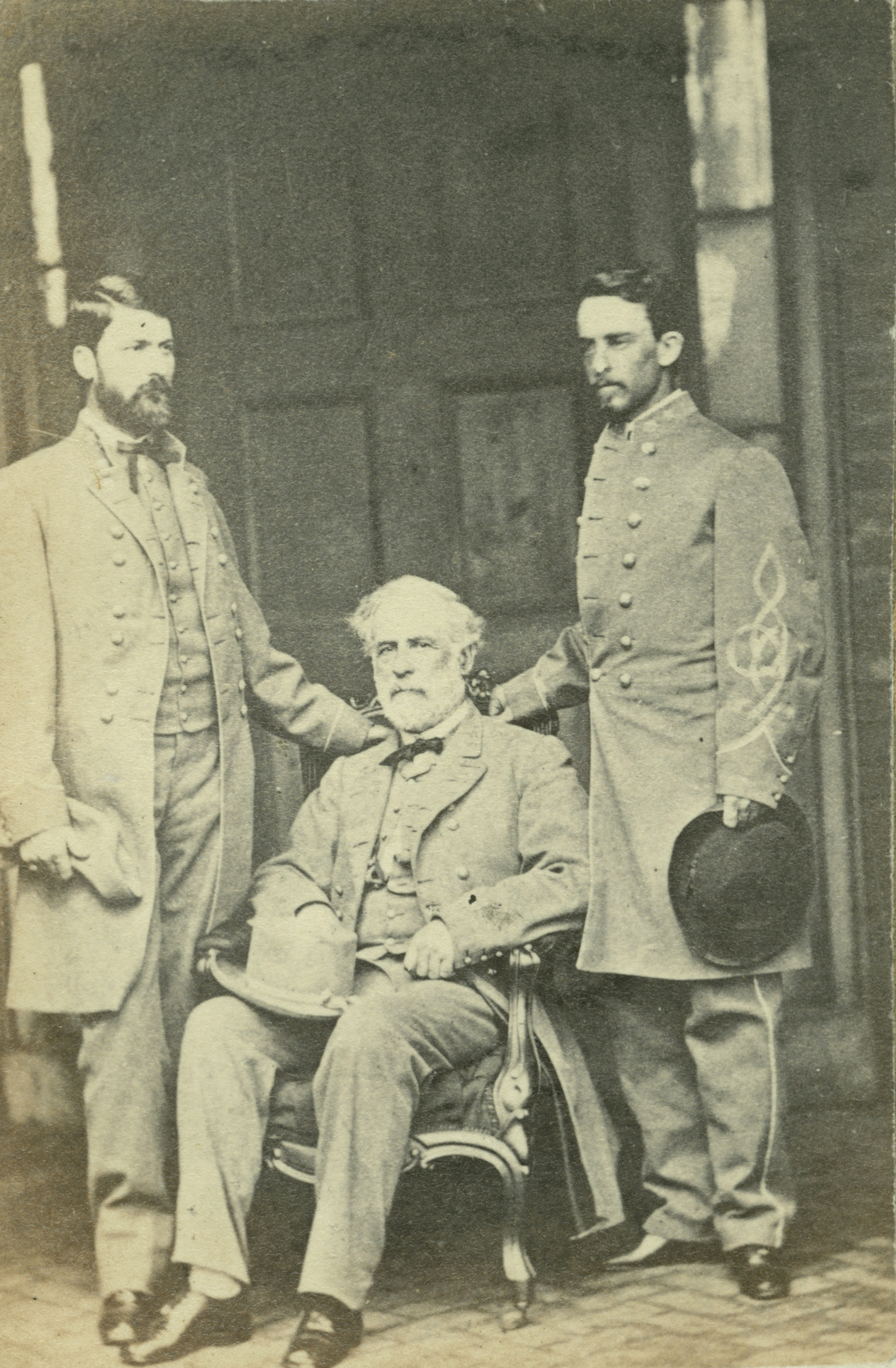 Carte-de-visit of three Confederate soldiers. Caption (with names expanded in brackets): Gen'l. R[obert]. E[dward]. Lee, Gen'l. G[eorge]. W[ashington]. Custis Lee (left) and Col. [Walter Herron] Taylor (personal staff)